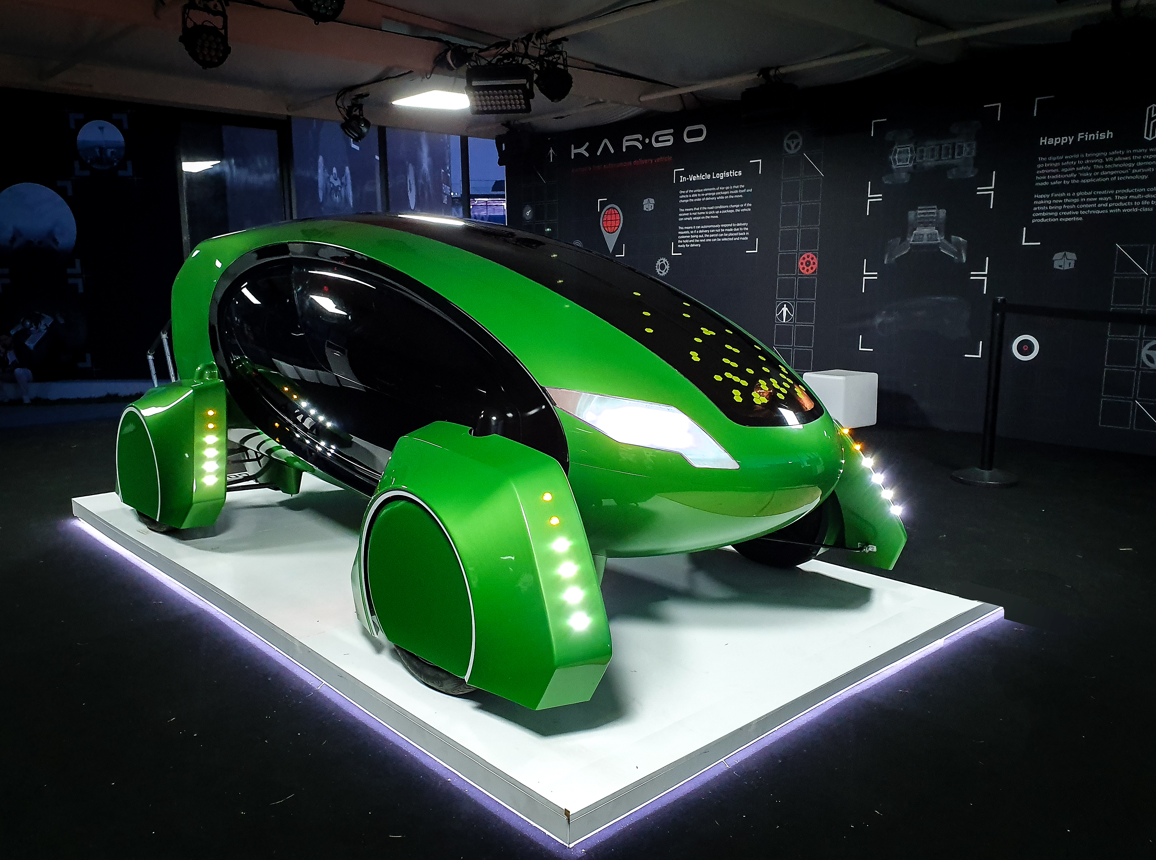 Kar-go at the Goodwood Festival of Speed